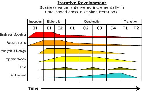 Iterative development illustration